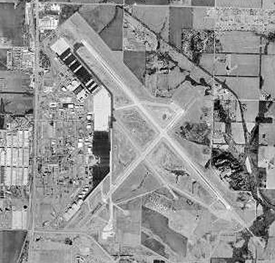 Forbes AFB Kansas - 24 Feb 2002